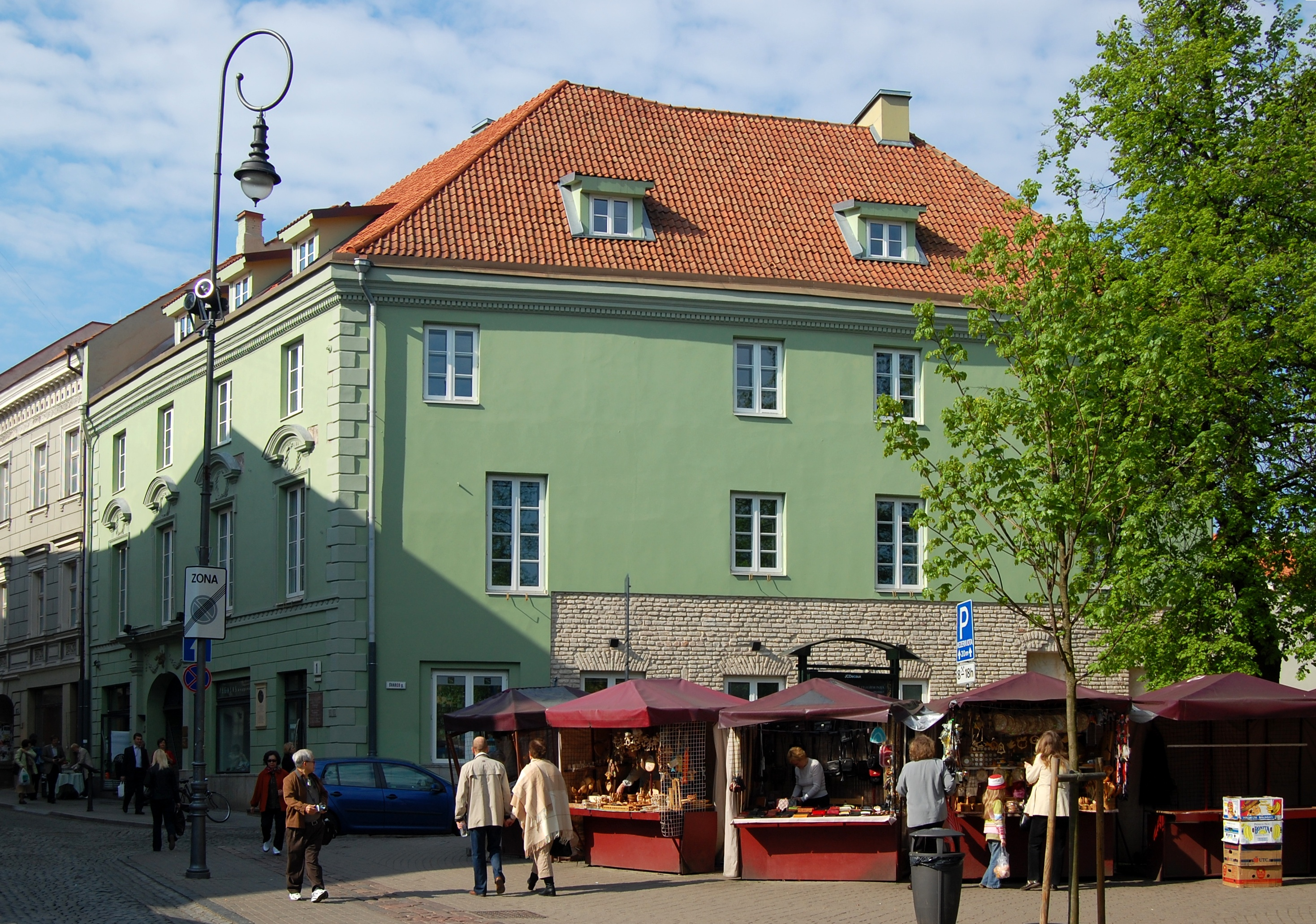 House in Pilies Street, Vilnius, Lithania.